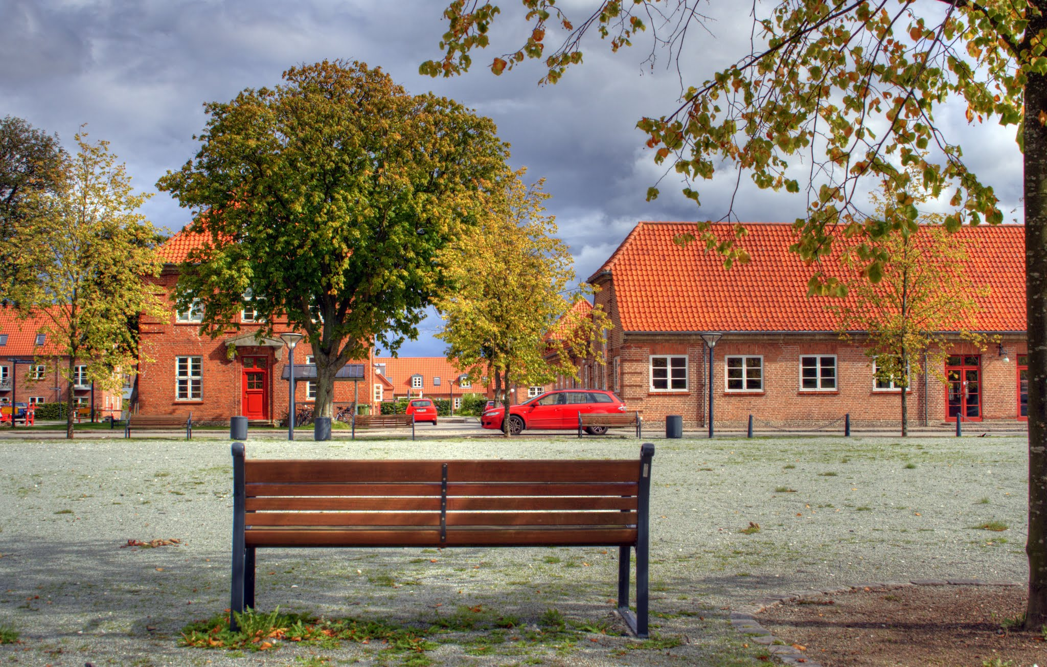 A Bench